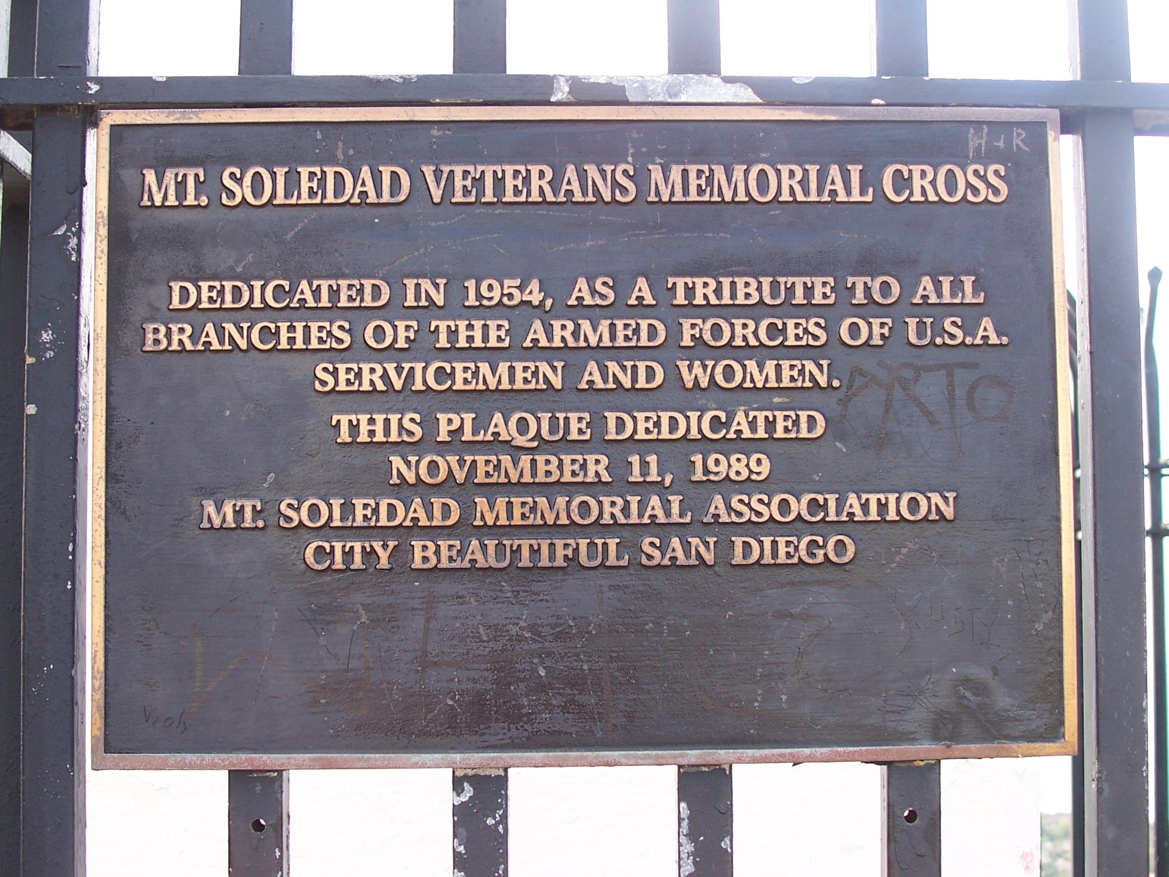 My picture of the Mt. Soledad Memorial Plaque in San Diego, CA.